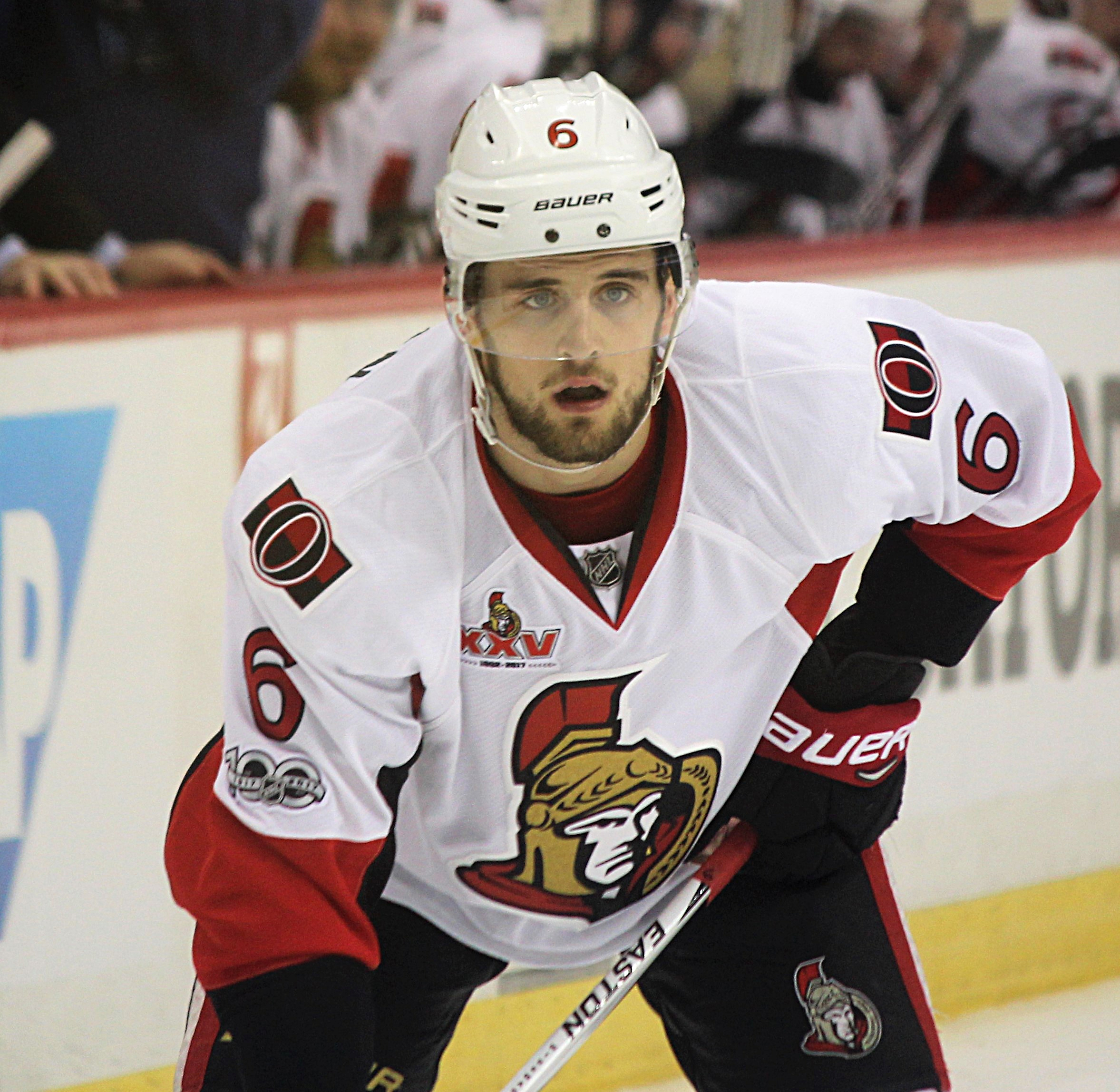 Ottawa Senators defenseman Chris Wideman during a playoff game against the Pittsburgh Penguins, May 13, 2017, at PPG Paints Arena in Pittsburgh, PA.